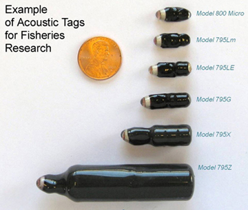 Acoustic tags are used to track and monitor aquatic life (e.g., juvenile salmonids) for fish survival, passage, and behavior. Commonly used at hydropower dams to verify and quantify fish passage.